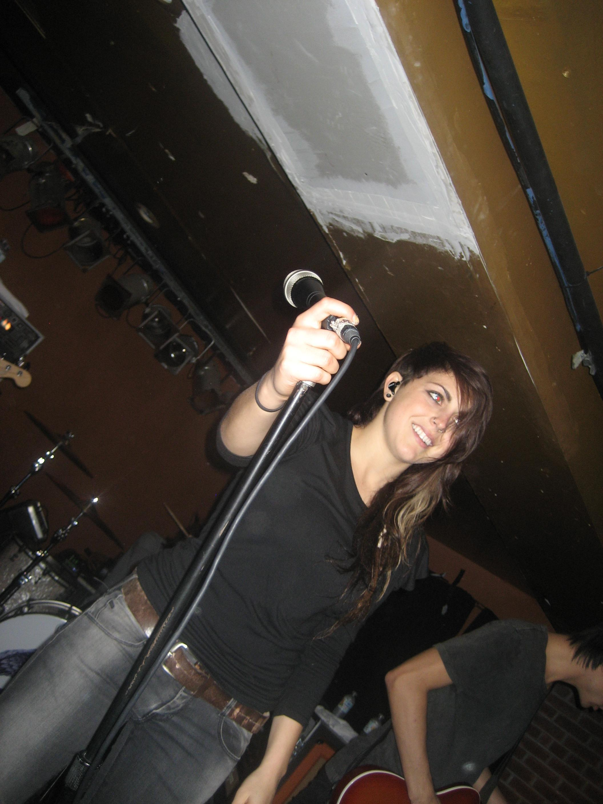 VersaEmerge's Sierra Kusterbeck and Blake Harnage performing in Poughkeepsie, NY on November 19th, 2010 on the Vulture's Unite Tour.